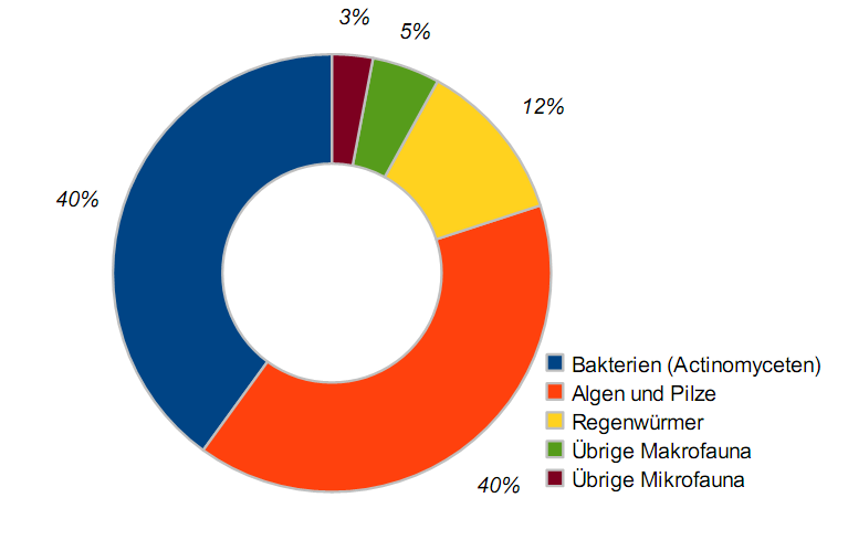 Soil Life